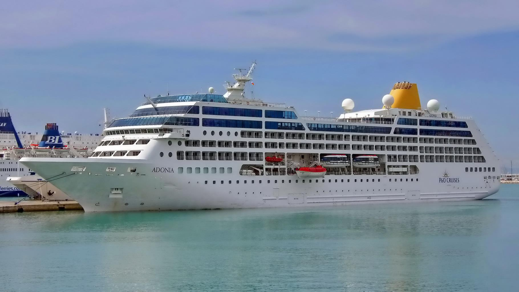 Adonia, cruise ship, built 2001, IMO 9210220, as seen in the passenger port of Split, Croatia, on 30 April 2013, at the position of N 43°30'17", E 16°26'22"; Heading 90°.